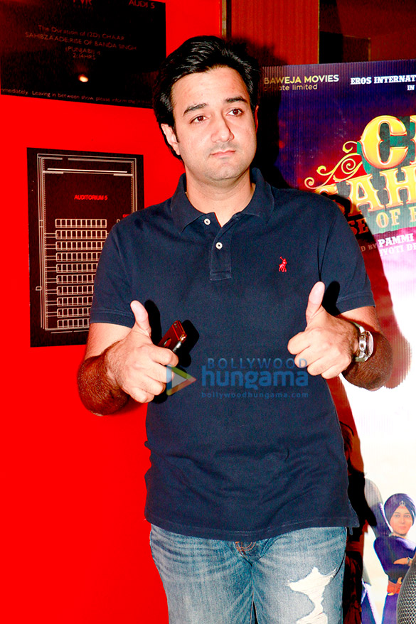 Anand at the special screening of ‘Chaar Sahibzaade – Rise of Banda Singh Bahadur’